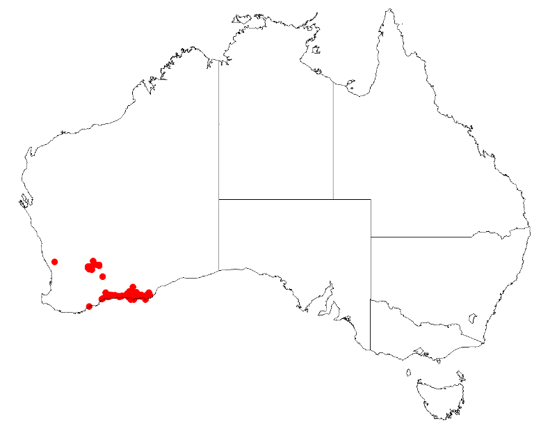 Conostylis bealiana occurrence data from AVH on 12 May 2017